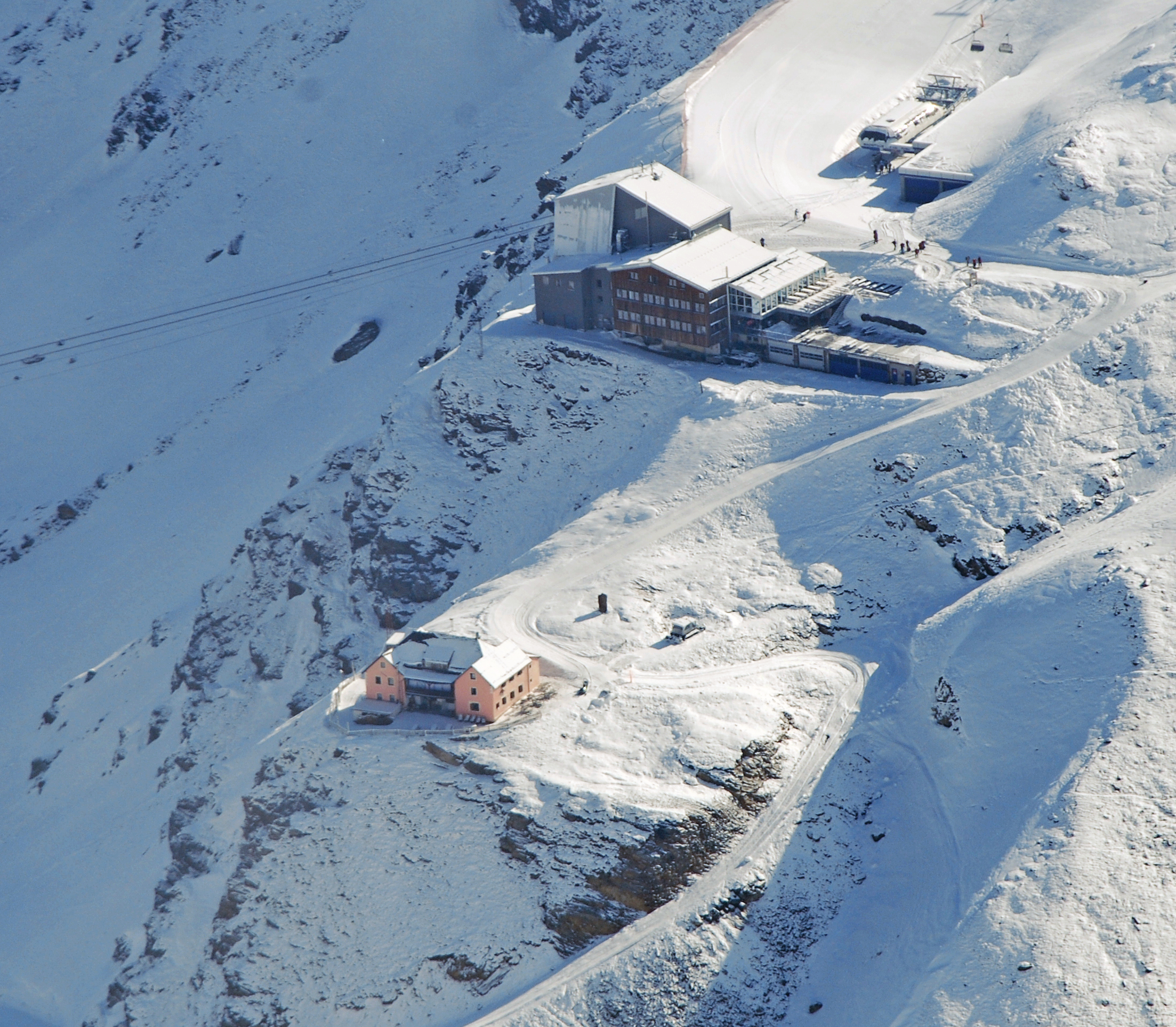 Schaubachhütte/Rifugio Citta di Milano from Königspitze